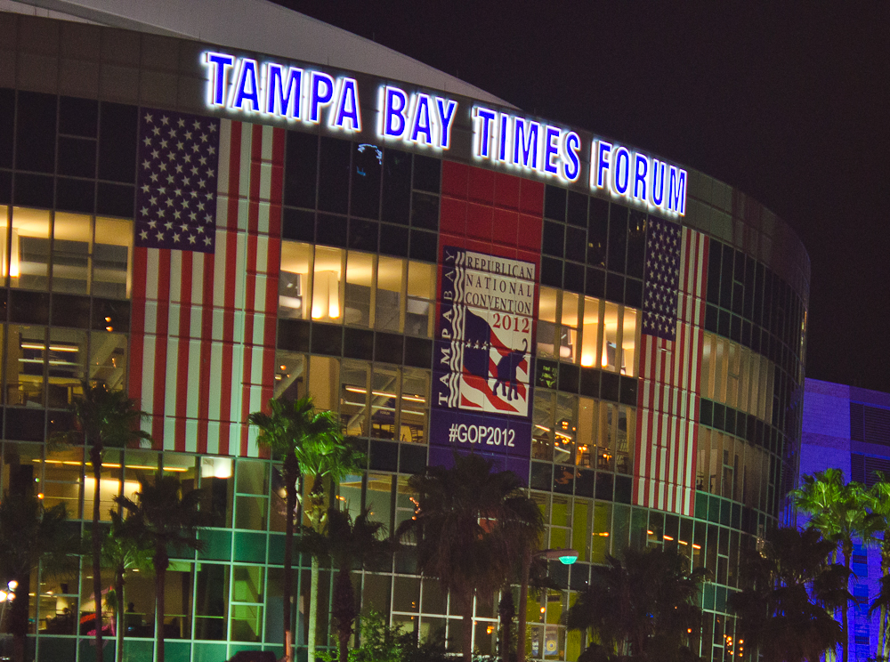 Tampa Bay Times Forum during the 2012 Republican National Convention.